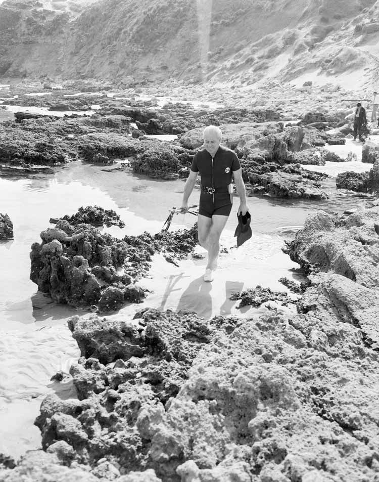 Harold Holt in 1966, preparing to go spearfishing near Portsea, Victoria